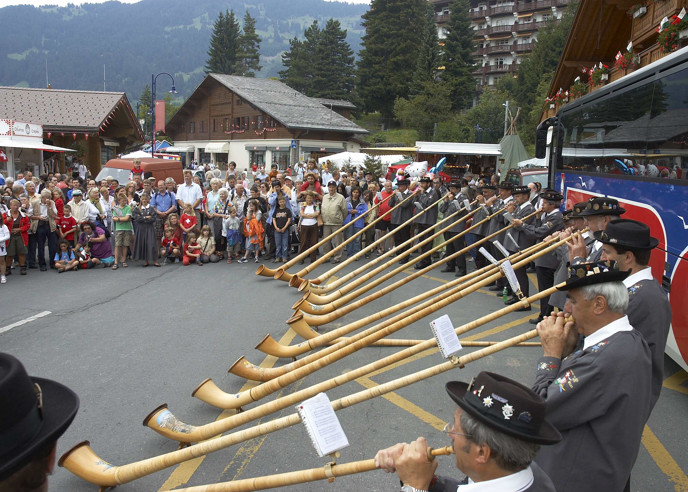 Festivities in Villars-sur-Ollon on August 1 the National Day of Switzerland